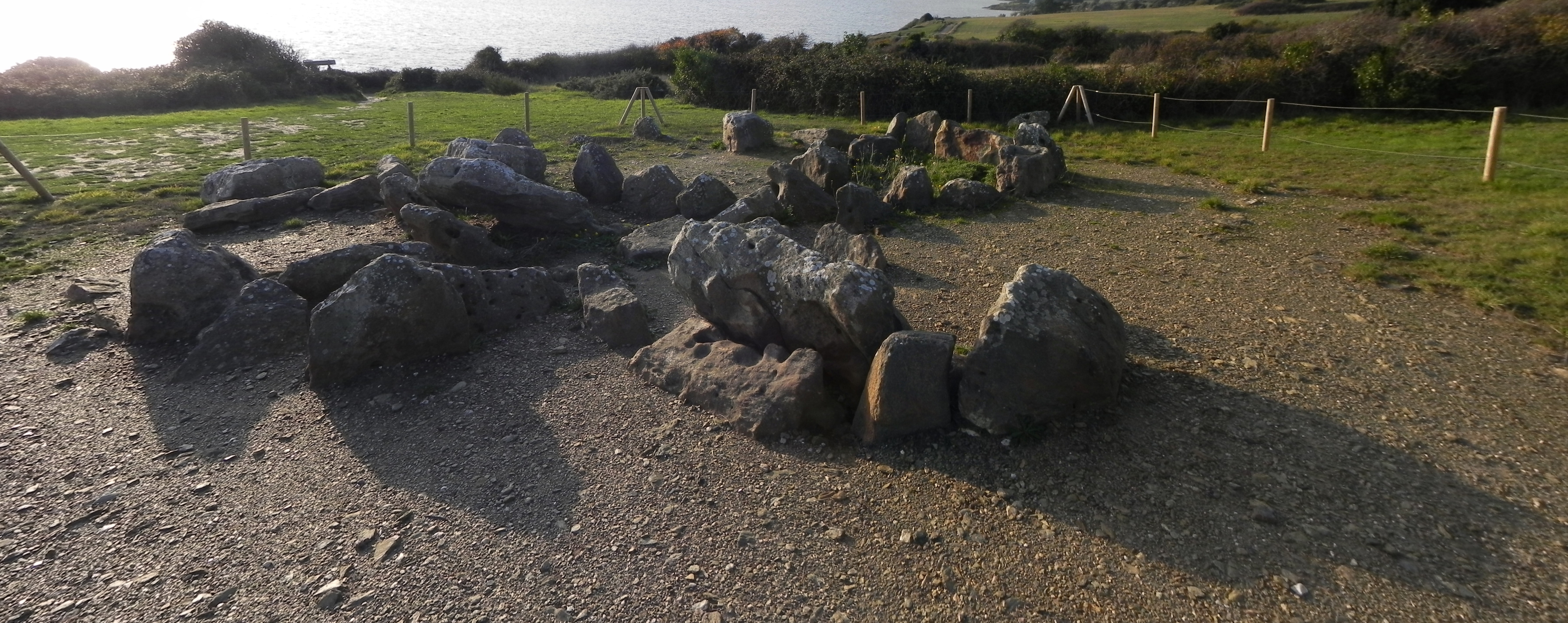 Dolmen du Pré d'Air, Pornic, Loire-Atlantique, France